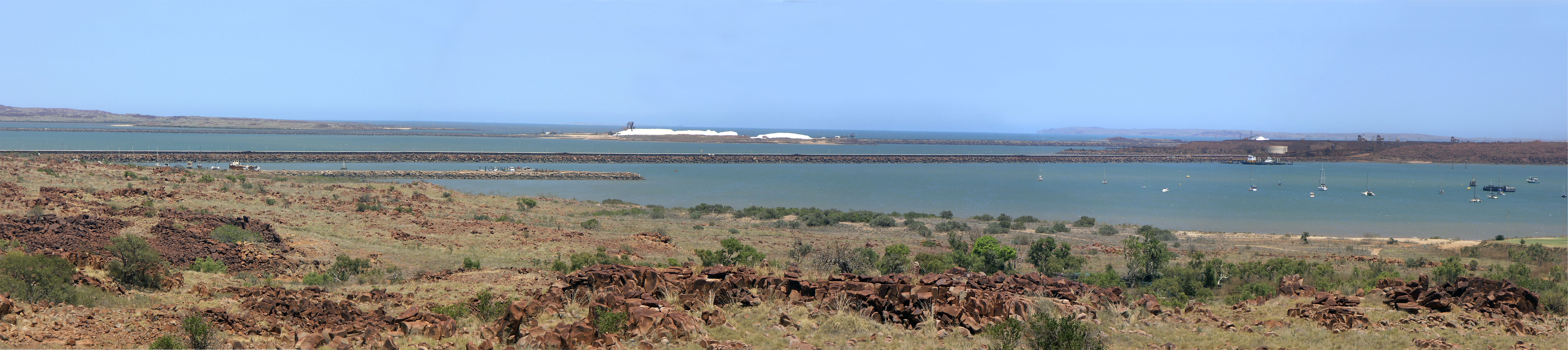 Panorama stitched from pics taken by me with an Olympus C8080W for this page